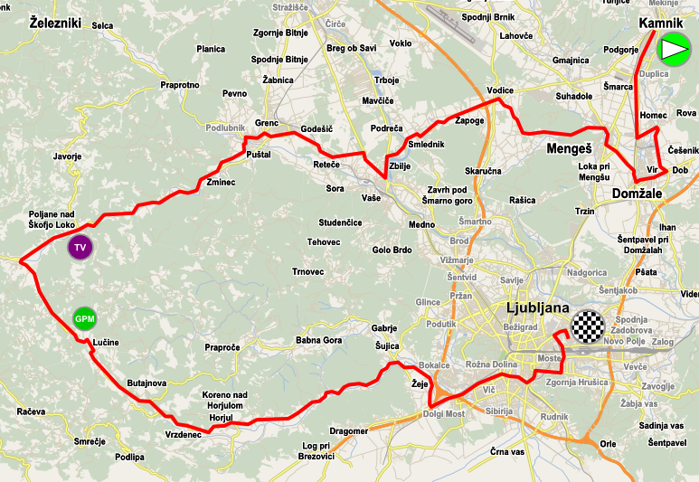 Map of the stage 1 of Giro Donne 2015. Background from OpenStreetMap.